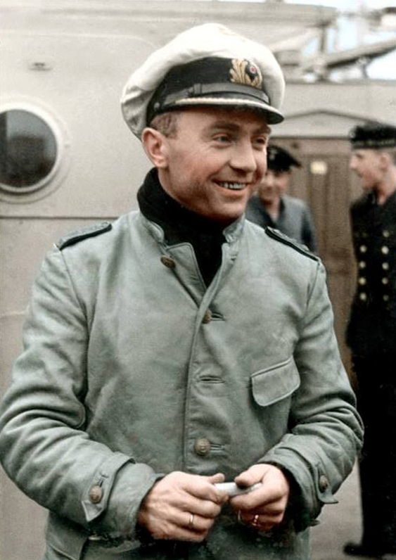 This is a retouched picture, which means that it has been digitally altered from its original version. Modifications: recolored. The original can be viewed here: Bundesarchiv Bild 183-2006-1130-500, Kapitänleutnant Günther Prien.jpg: . Modifications made by Ruffneck88. Kapitänleutnant Günther Prien Photographer Schulze, Annelise (Mauritius)Archive description Description provided by the archive when the original description is incomplete or wrong. You can help by reporting errors and typos at Commons:Bundesarchiv/Error reports. Kapitänleutnant Günther Prien an Bord eines KriegsschiffsTitle Kapitänleutnant Günther Prien Original caption Kapitänleutnant Prien 6534-40Depicted people Prien, Günther: Kapitänleutnant, Ritterkreuz (RK), Marine, Deutschland (GND 11859656X)Date 1940date QS:P571,+1940-00-00T00:00:00Z/9Collection German Federal Archives Native nameDas BundesarchivLocationKoblenz (headquarters)Coordinates50° 20′ 32.71″ N, 7° 34′ 21.22″ E Established1946Web page control : Q685753 VIAF: 137346469 ISNI: 0000 0004 0555 2728 LCCN: n92025526 NLA: 36455393 Open Library: OL55798A WorldCat institution QS:P195,Q685753Current location Allgemeiner Deutscher Nachrichtendienst - Zentralbild (Bild 183)Accession number Bild 183-2006-1130-500 Source This image was provided to Wikimedia Commons by the German Federal Archive (Deutsches Bundesarchiv) as part of a cooperation project. The German Federal Archive guarantees an authentic representation only using the originals (negative and/or positive), resp. the digitalization of the originals as provided by the Digital Image Archive. Kapitänleutnant Prien 6534-40